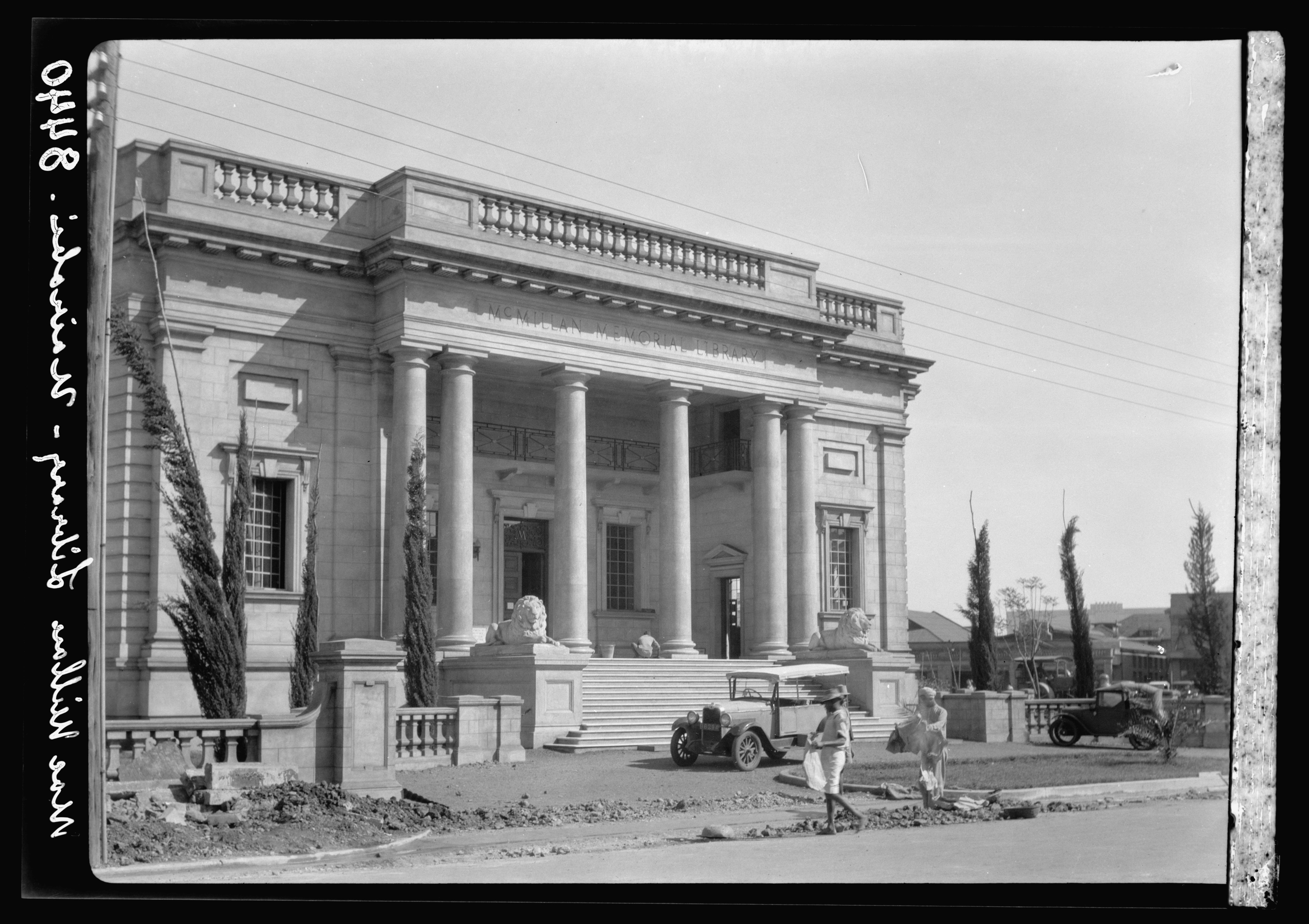 Title: Kenya Colony. Nairobi. The MacMillan Library, closer view Abstract/medium: G. Eric and Edith Matson Photograph Collection Physical description: 1 negative